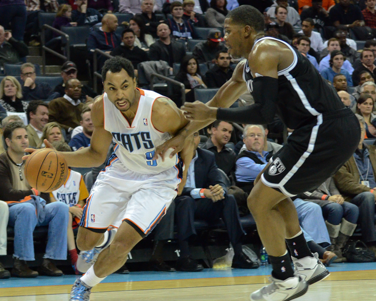 Charlotte Bobcats' Gerald Henderson, Jr. is guarded by a Brooklyn Nets player.